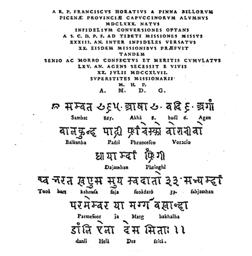 Epitaph in Latin and Nepal Bhasa on the tombstone of Capuchin missionary to Tibet Francesco Orazio Olivieri della Penna (1680 – July 20, 1745) who was buried in Lalitpur, Nepal.